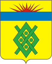 Eremizovo-Borisovskoe (Krasnodar krai), coat of arms